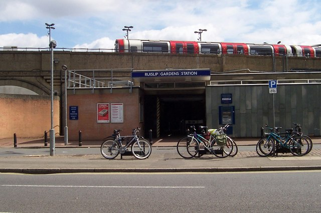 Ruislip Gardens Station